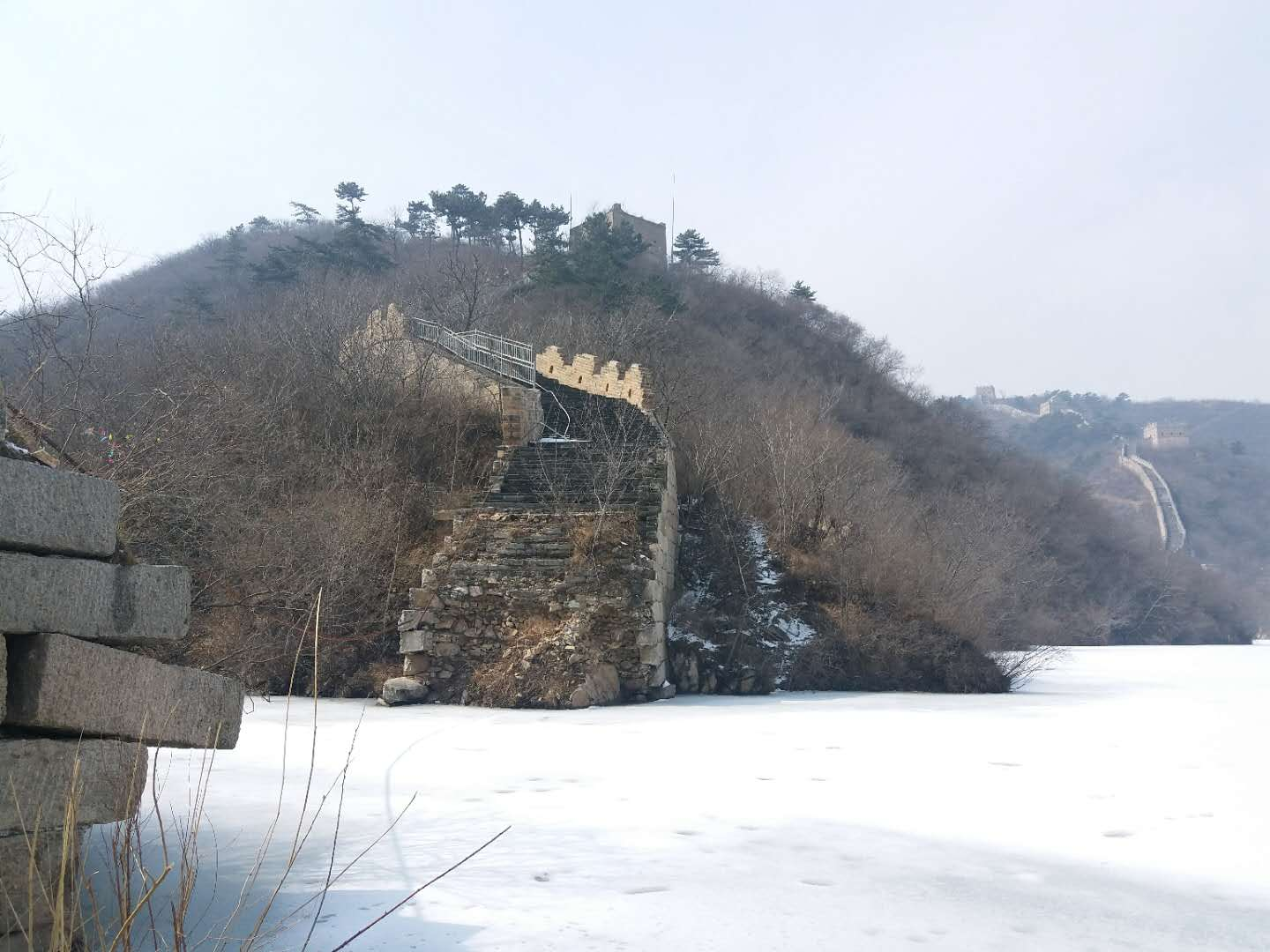 Submerged part of the Great Wall under lake water at the Lakeside Great Wall located at Huanghuacheng, Jiuduhe, Huairou District, Beijing, China in March 2018. The lake is frozen.